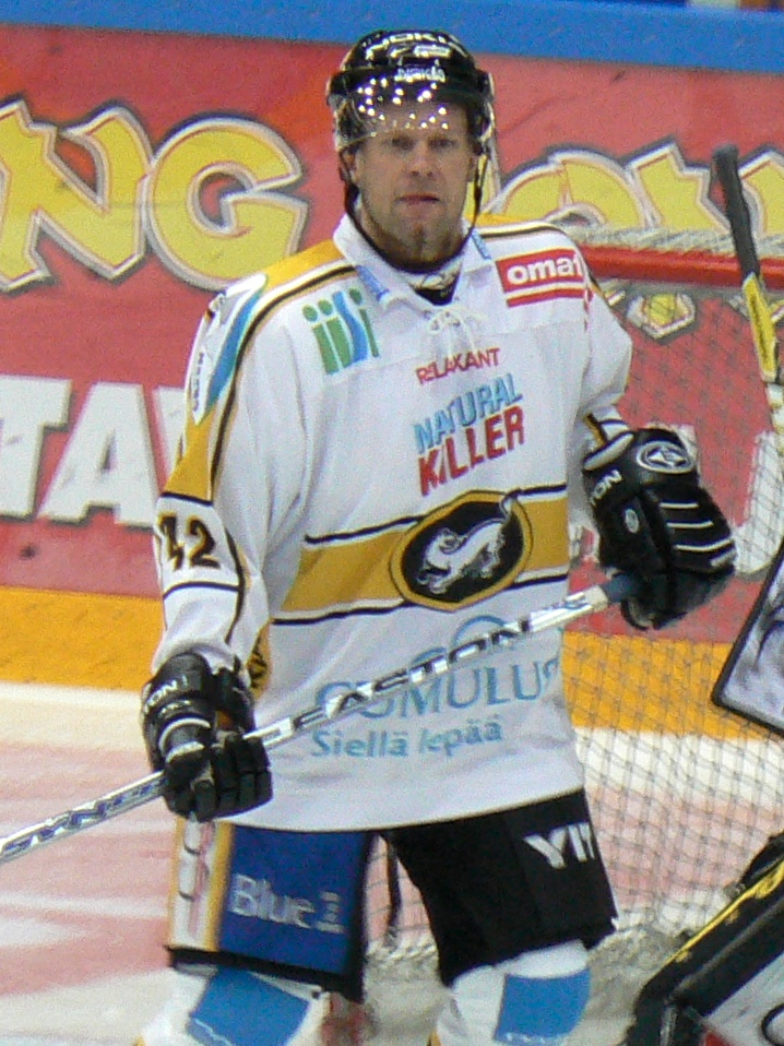 Finnish ice hockey defenseman Jere Karalahti playing for Kärpät Oulu in September 2007.